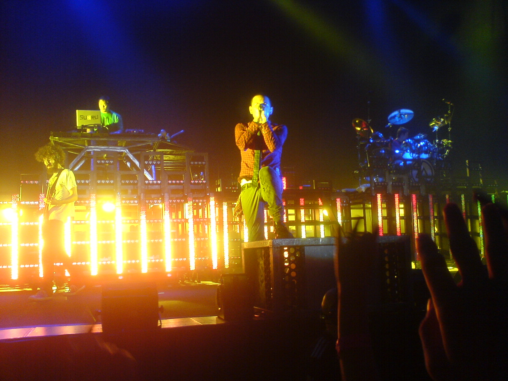 Linkin Park 2007, live in Prague